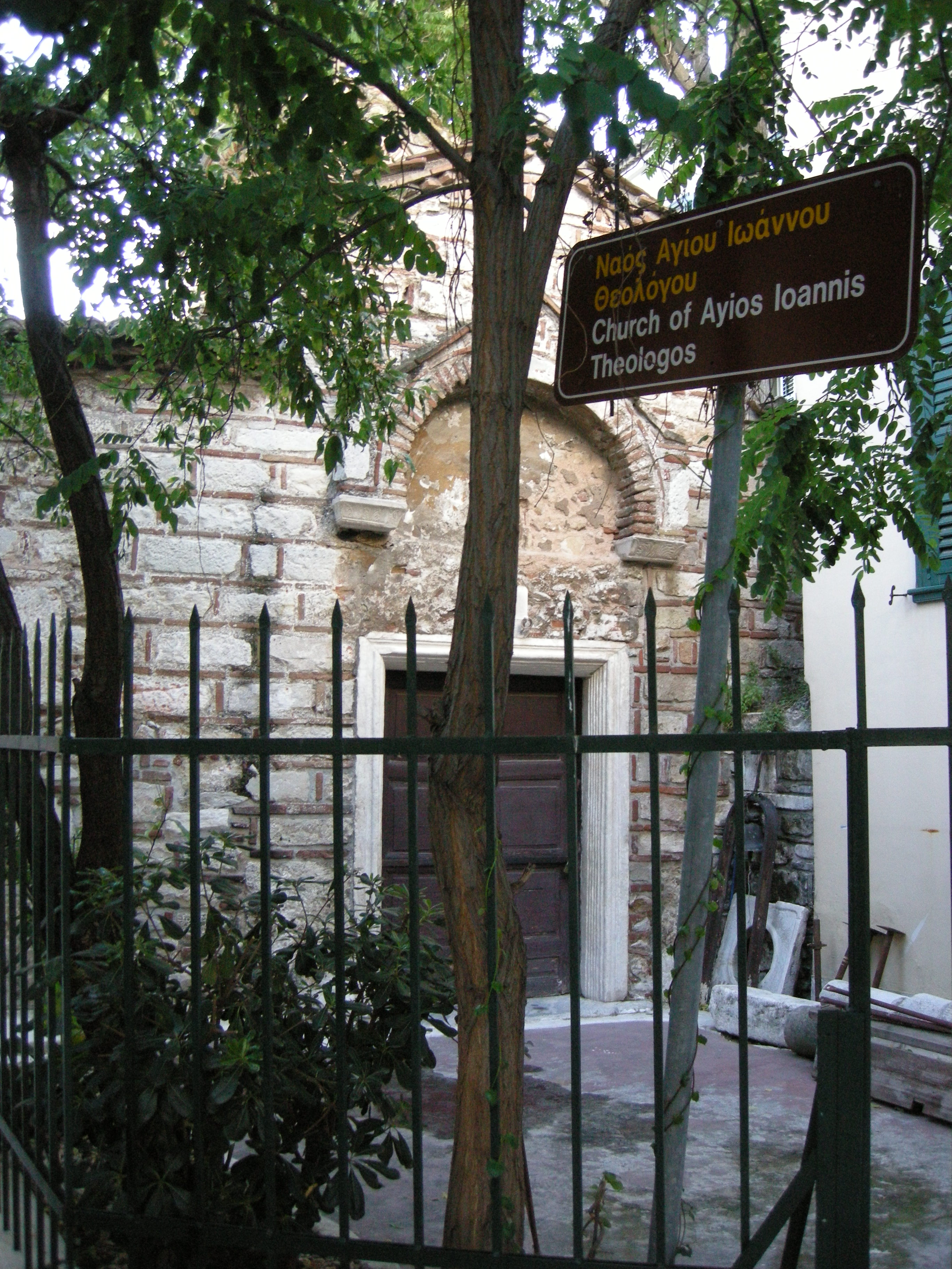 Agios Ioannis Theologos